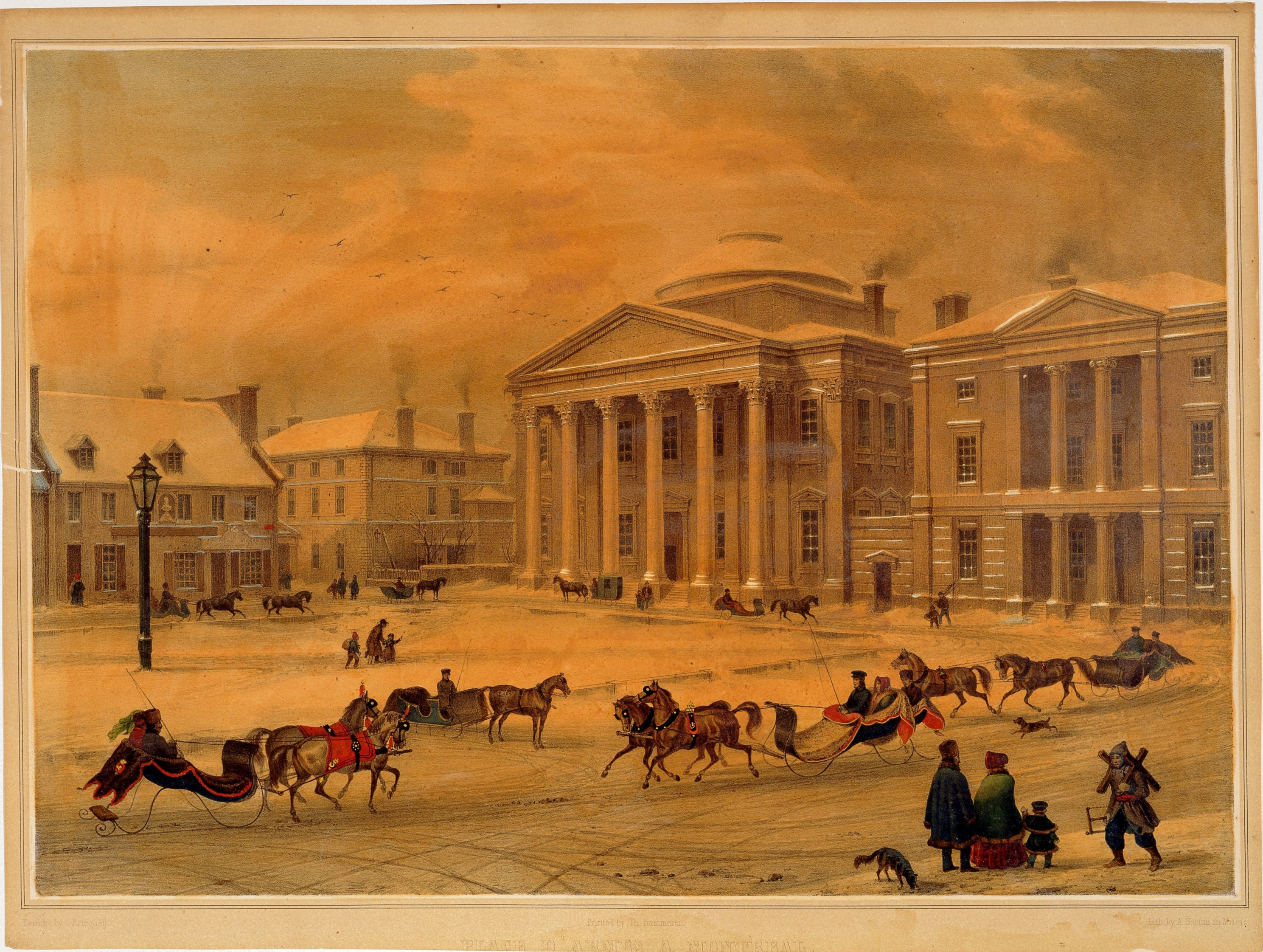 Print of Place d'Armes in Montreal, Quebec, Canada.